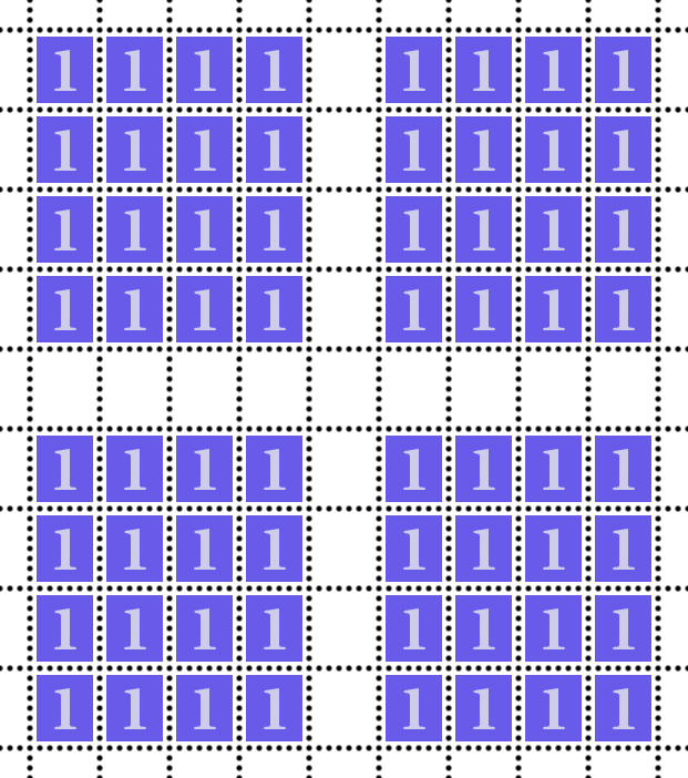 Diagram depicting stamp sheet with four panes.